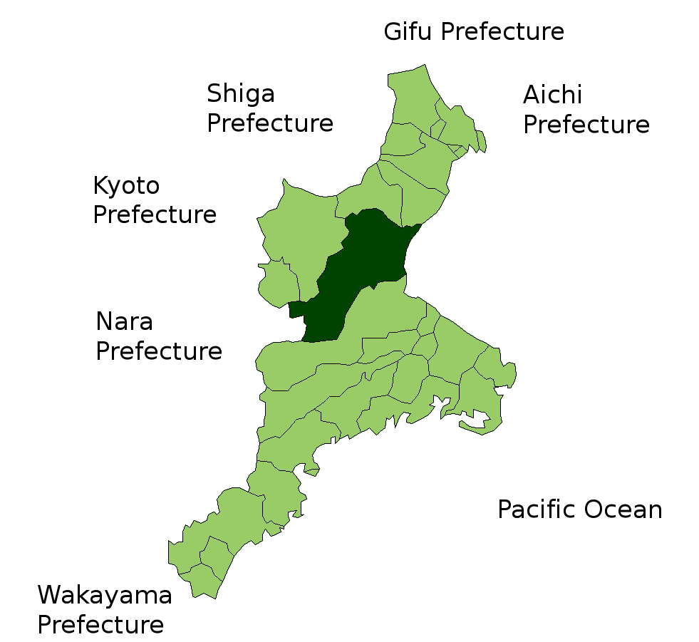 Location Map of Tsu in Mie Prefecture, Japan